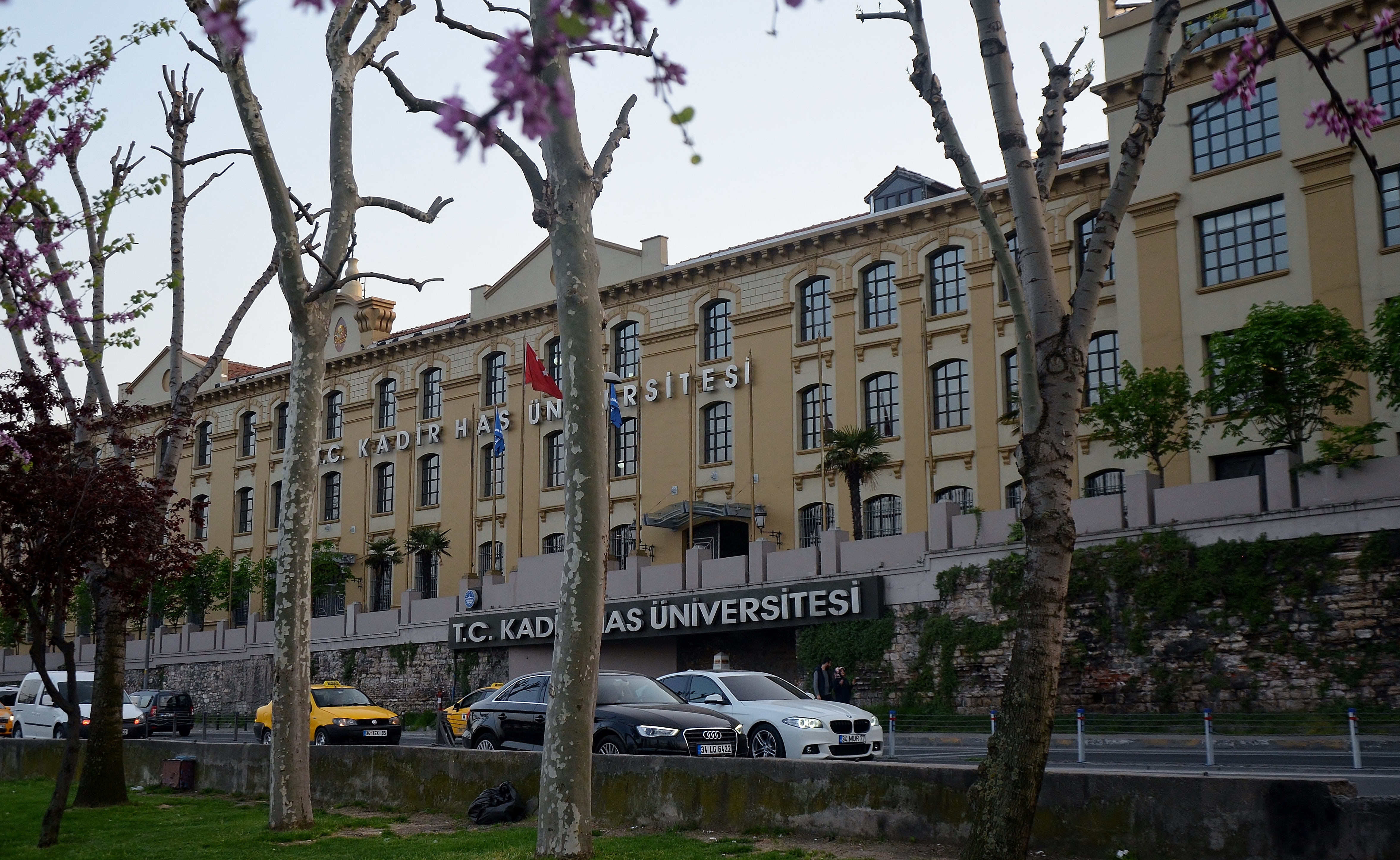 Kadir Has University's ain building in Cibali, Fatih Istanbul